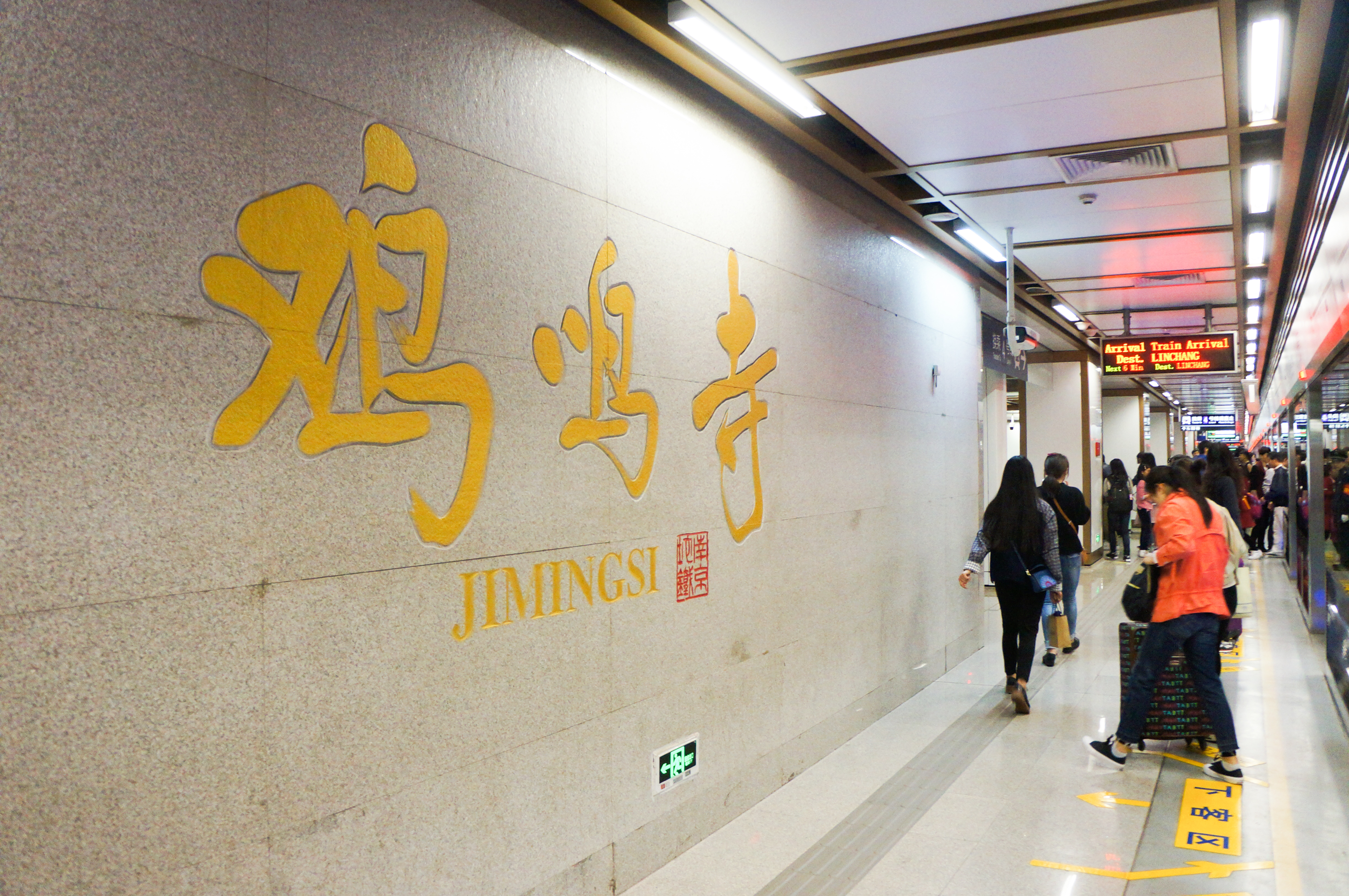 201704 L3 Jimingsi Station